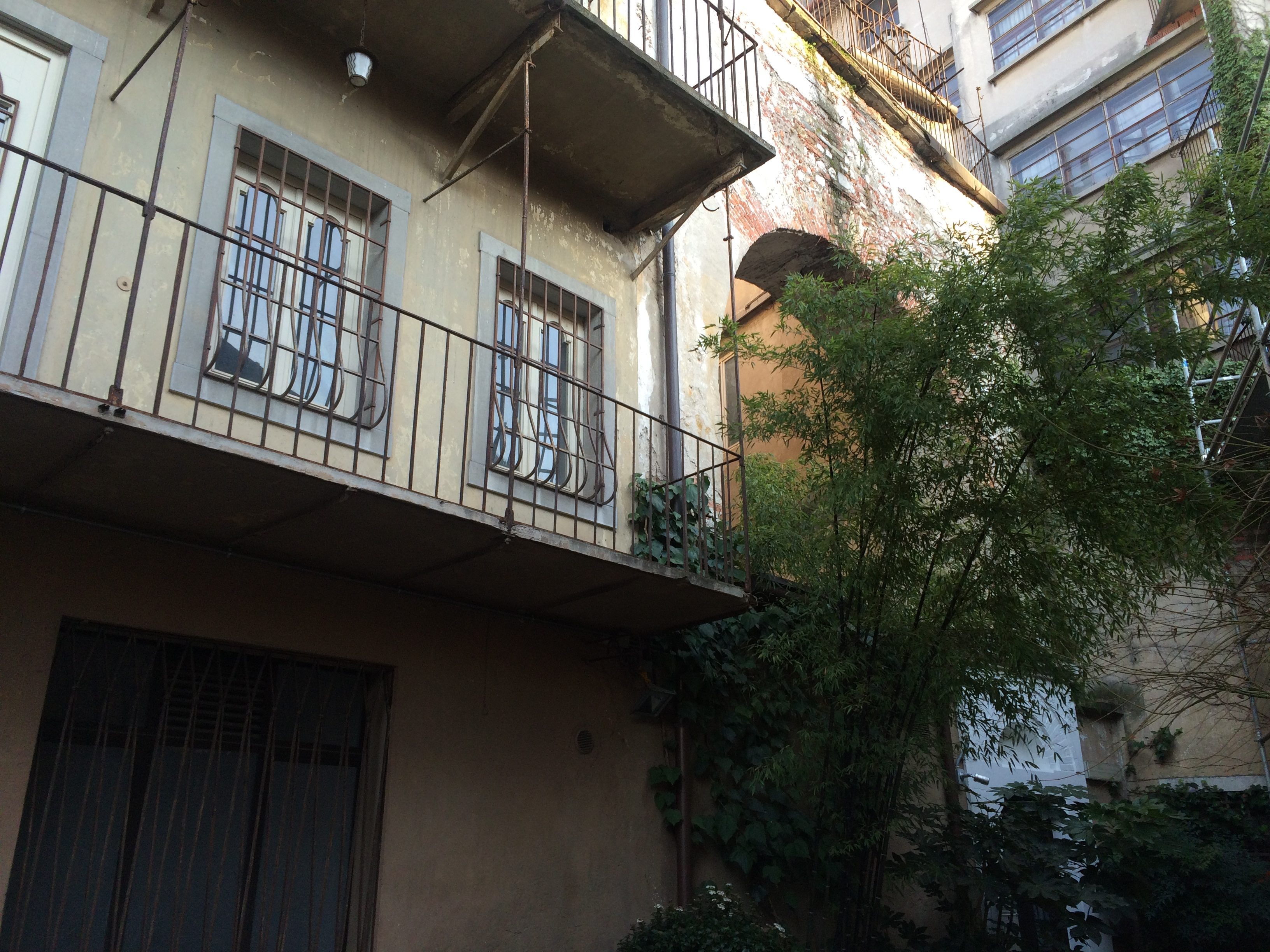 Porta Poscolle vecchia